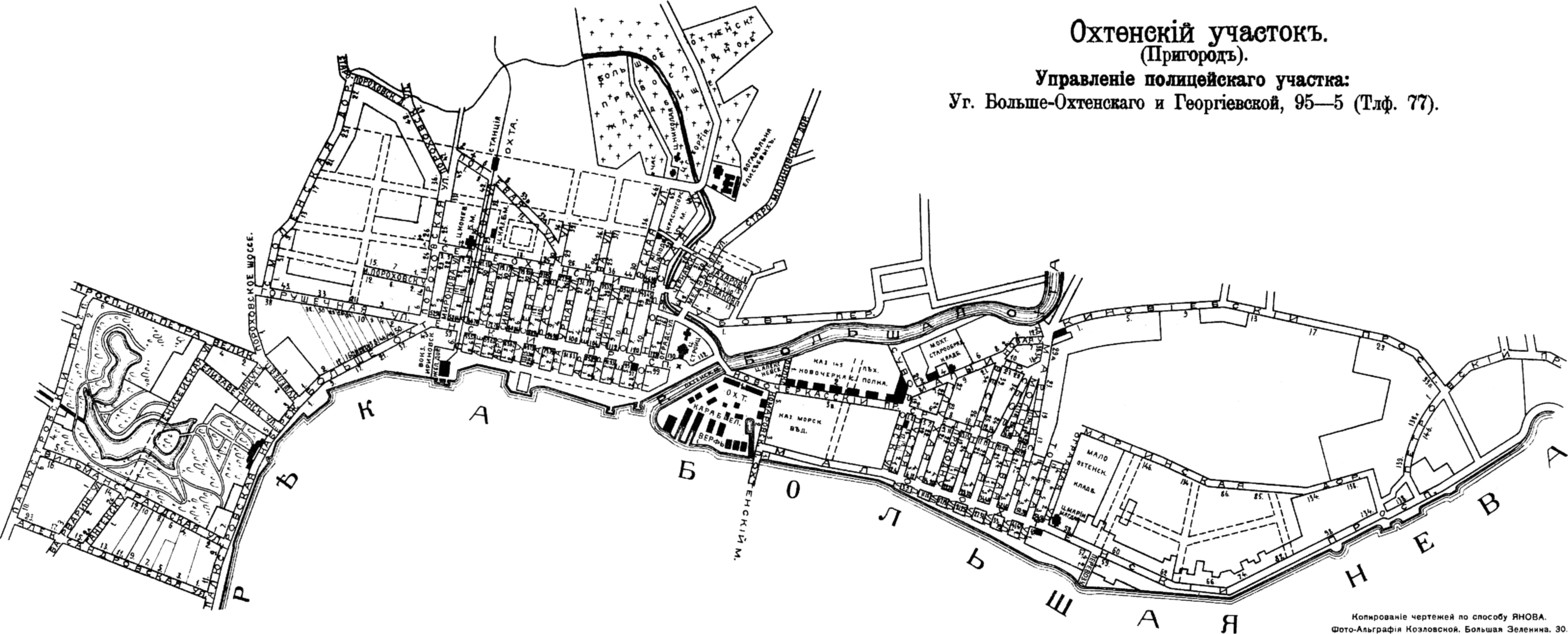 The hand-drawn map of 'Okhtensky Uchastok' - one of the closest suburban districts of Petersburg in Russia